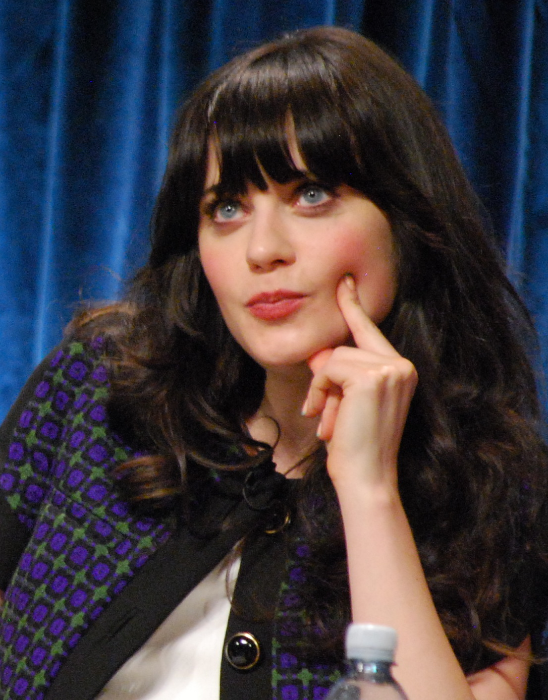 Elizabeth Meriwether, Zooey Deschanel